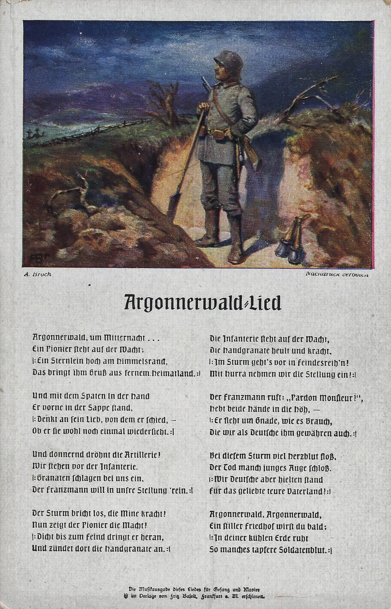 The Argonnerwaldlied; painting by Alois Broch (b. 1864; d. 1939)